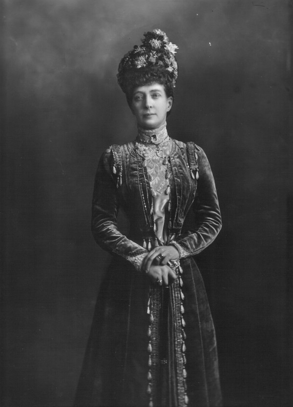 Alexandra of Denmark, queen consort of the United Kingdom and empress of India